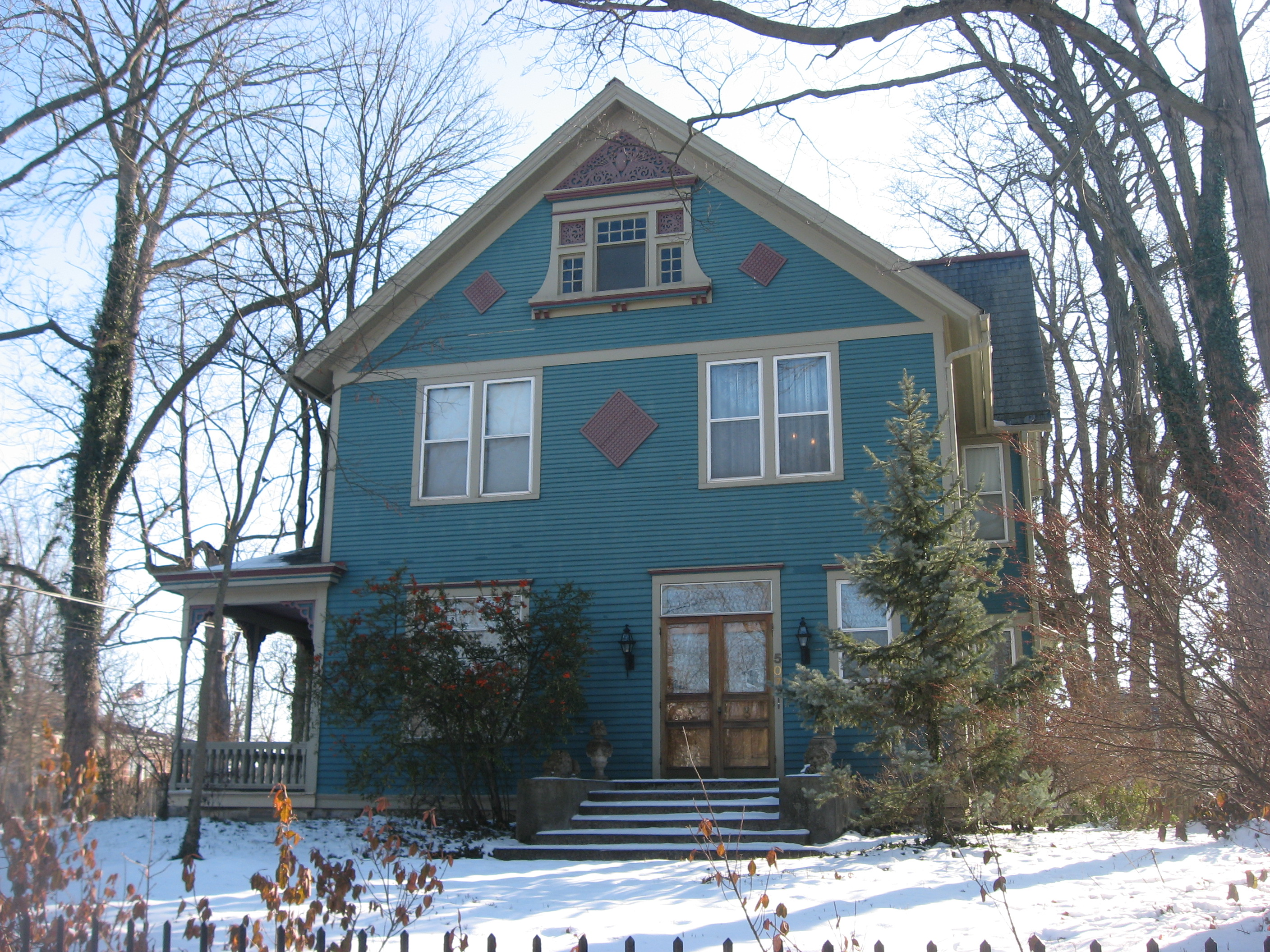 Front of the Mountz House, located at 507 E. Houston Street in Garrett, Indiana, United States. Built in 1893, it is listed on the National Register of Historic Places, and it is part of a Register-listed historic district, the Garrett Historic District.